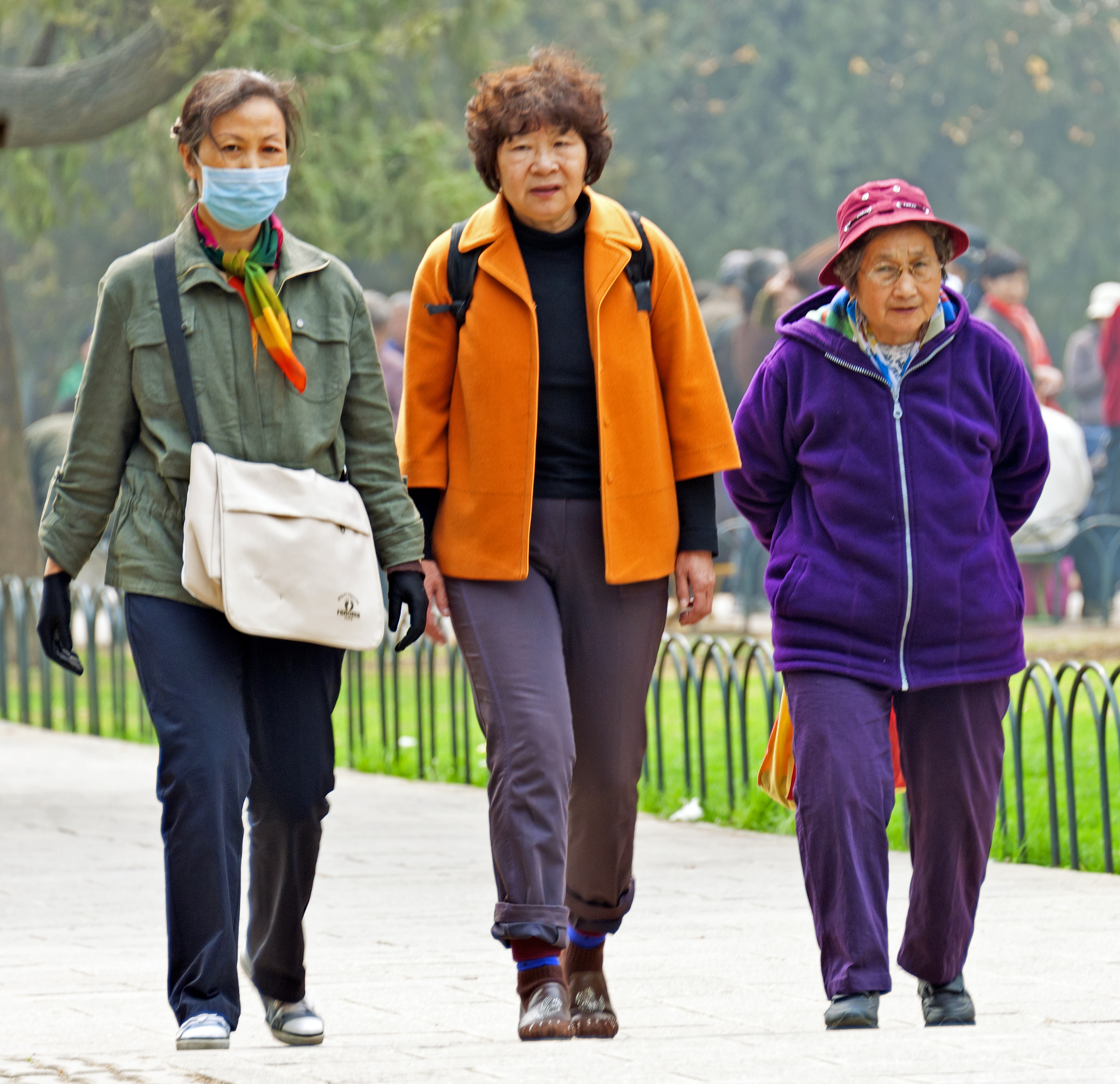 Group of women walking together at Temple of Heaven Park in Beijing. Woman at left wears a surgical mask against that day's 300+ AQI reading